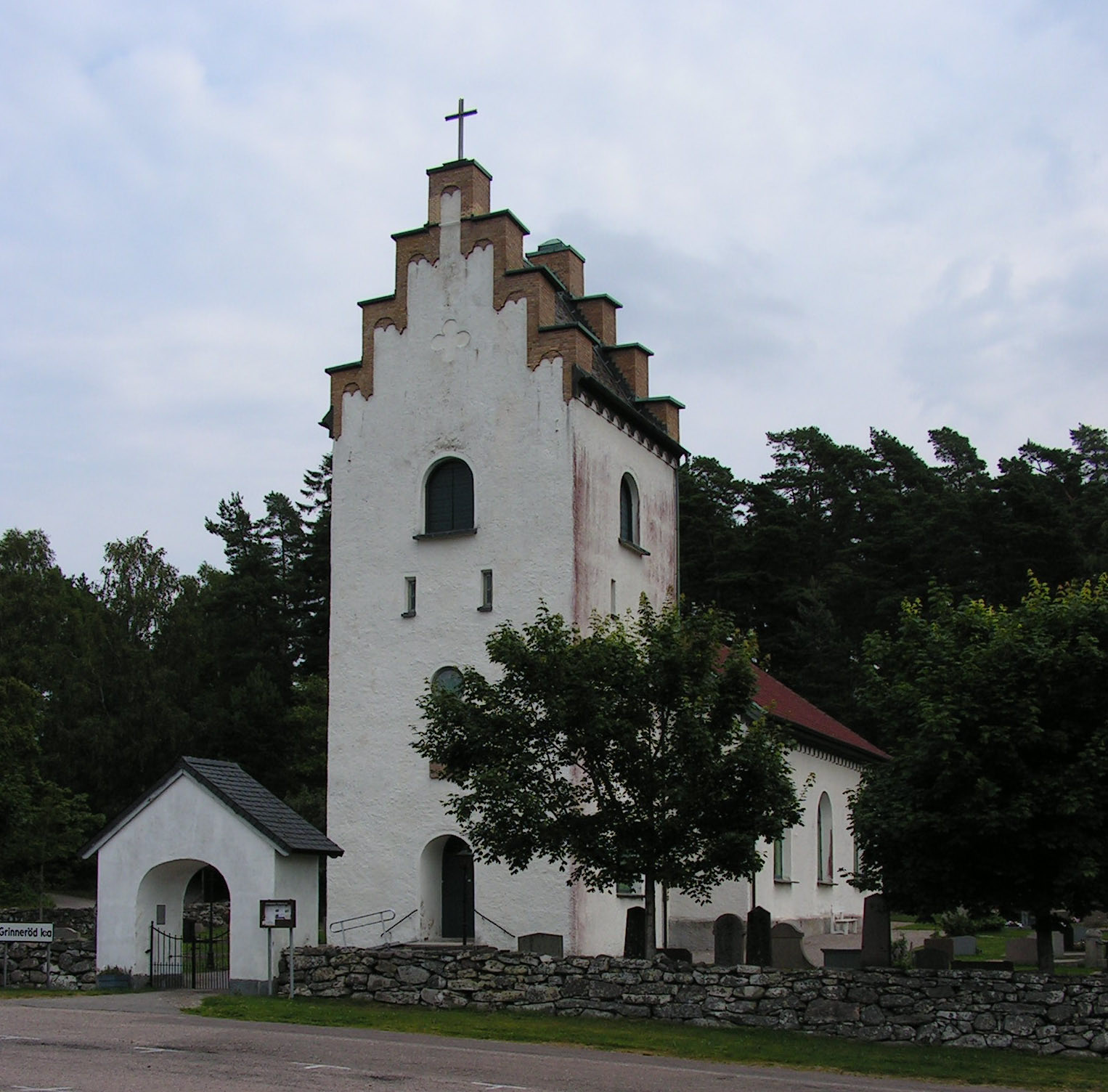 The church in Grinneröd, Uddevalla Municipality, Bohuslän, Sweden.